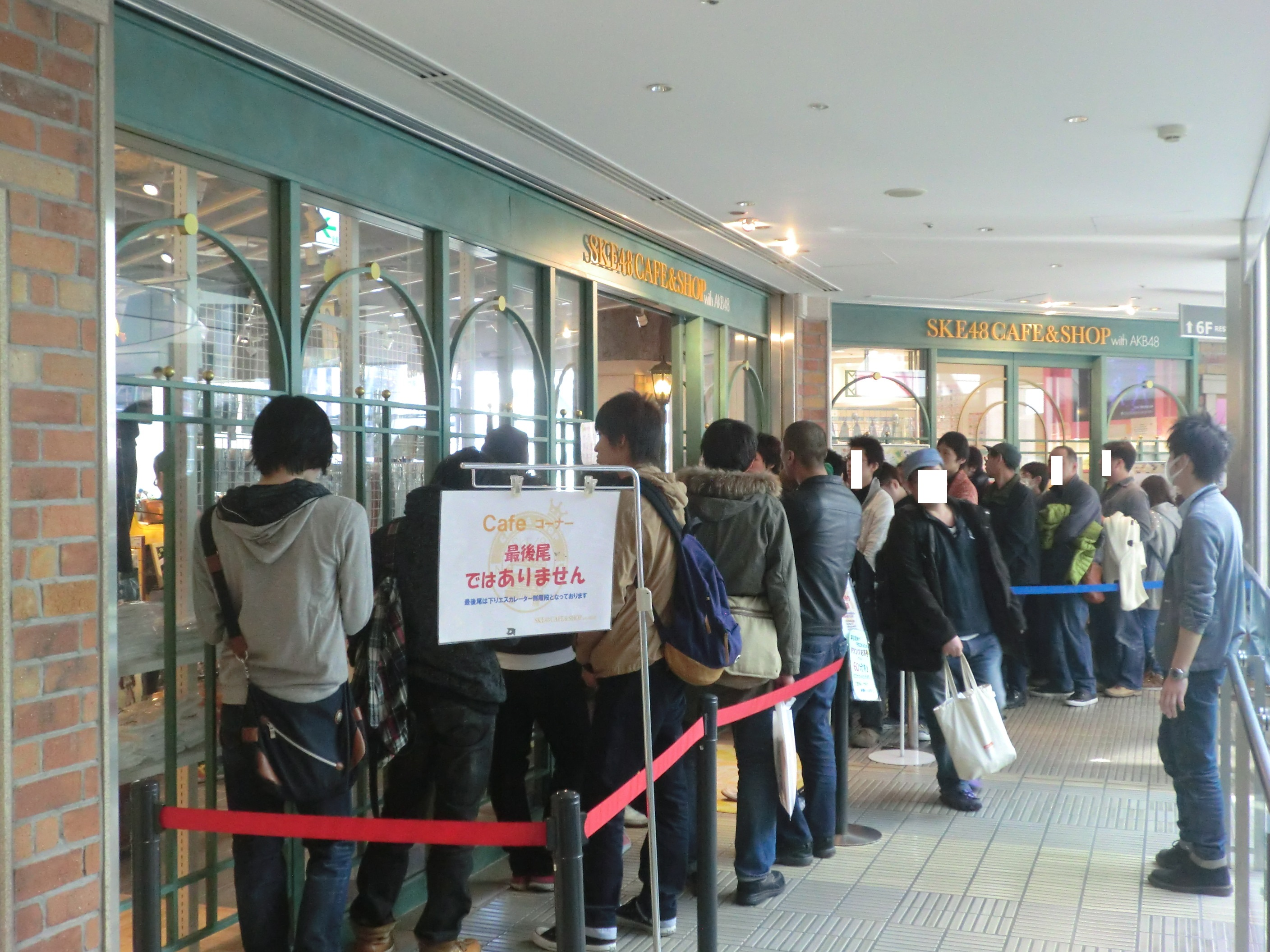 SKE48 CAFE & SHOP with AKB48 at 5F of SUNSHINE SAKAE in Nagoya, Aichi, Japan.